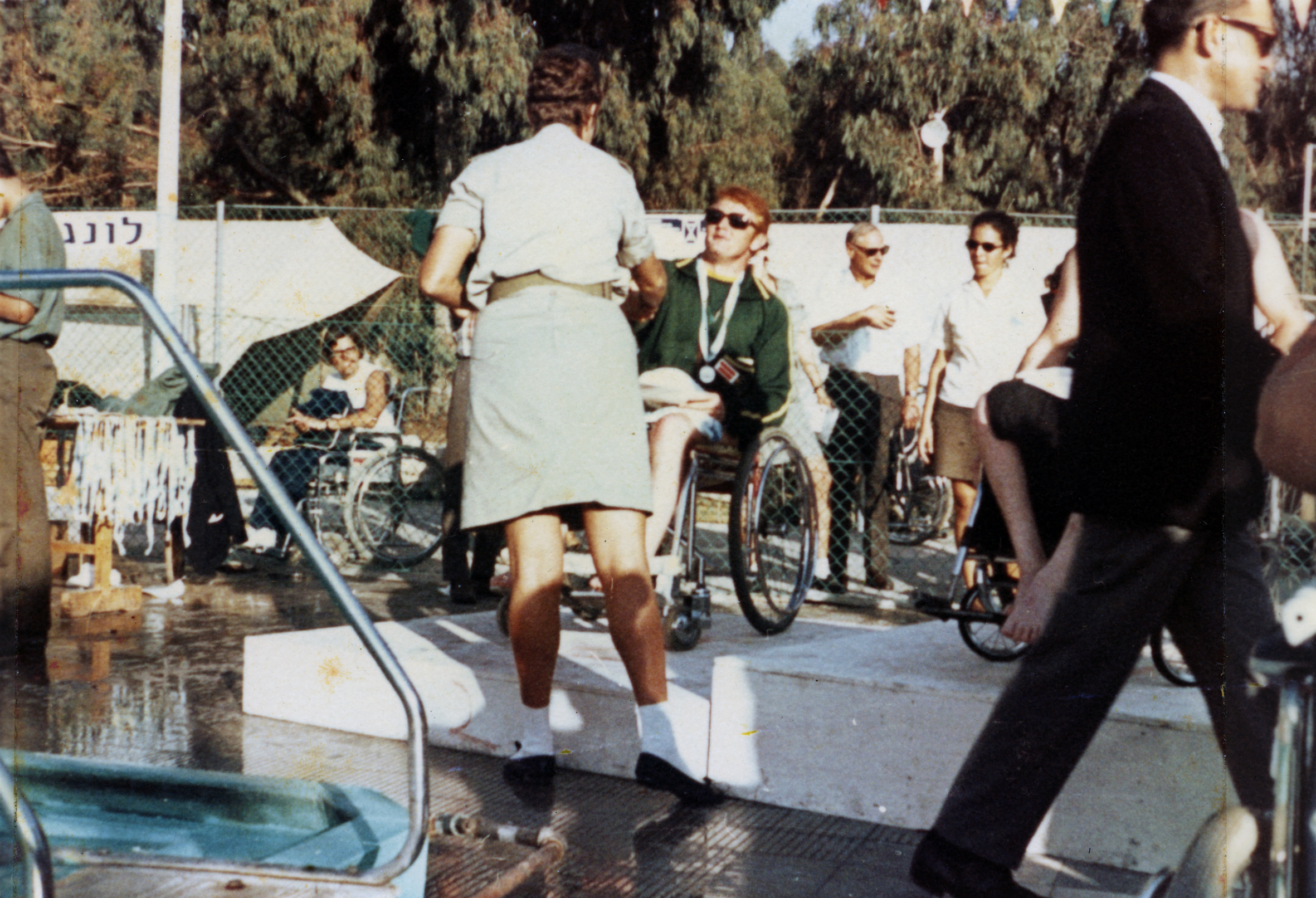 Australian Paralympian Jeff Simmonds receives his silver medal for the 50m breaststroke at the 1968 Tel Aviv summer Paralympics